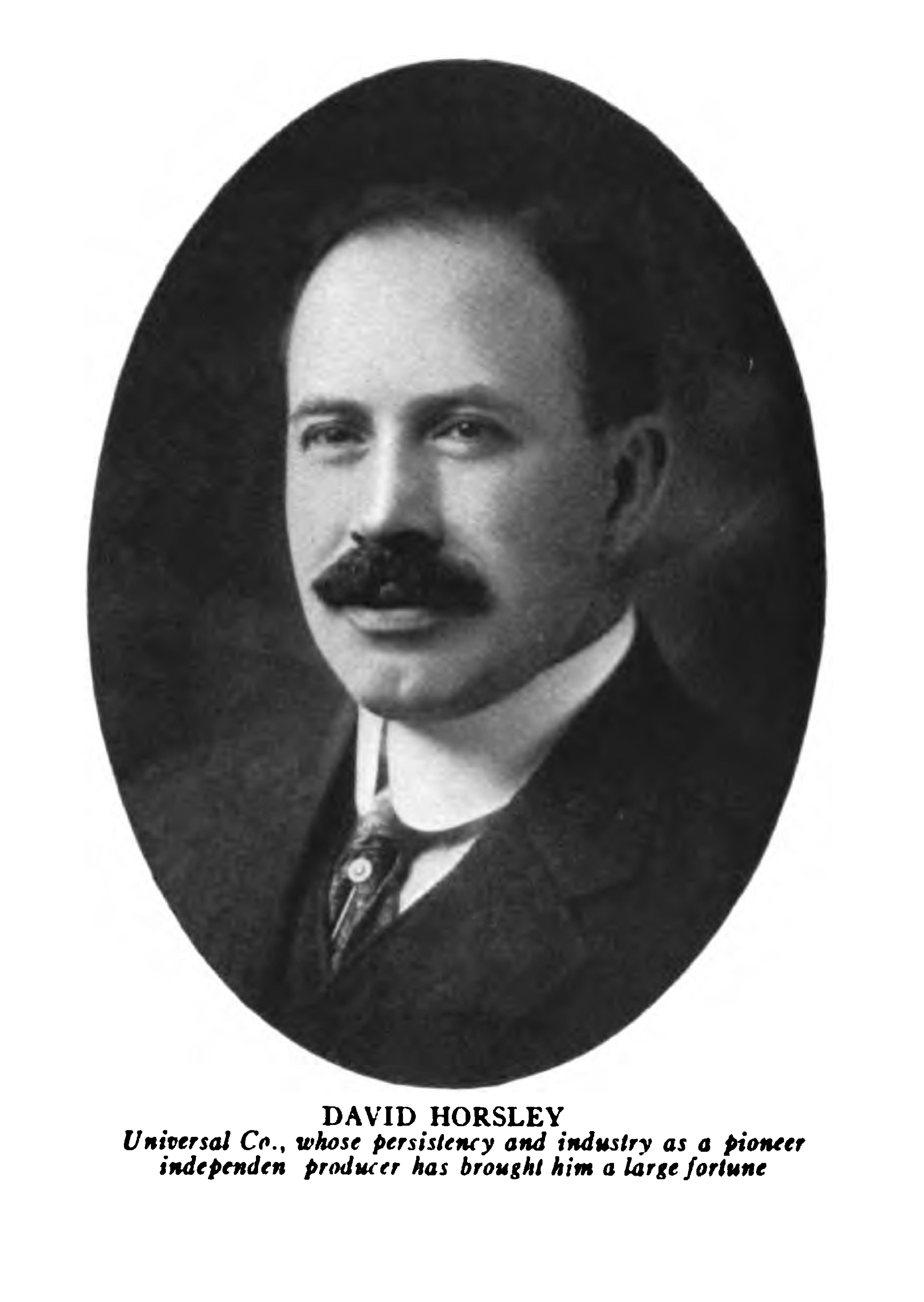 David Horsley (March 11, 1873 – February 23, 1933) was an English born pioneer of the movie industry who built the first movie studio in Hollywood.